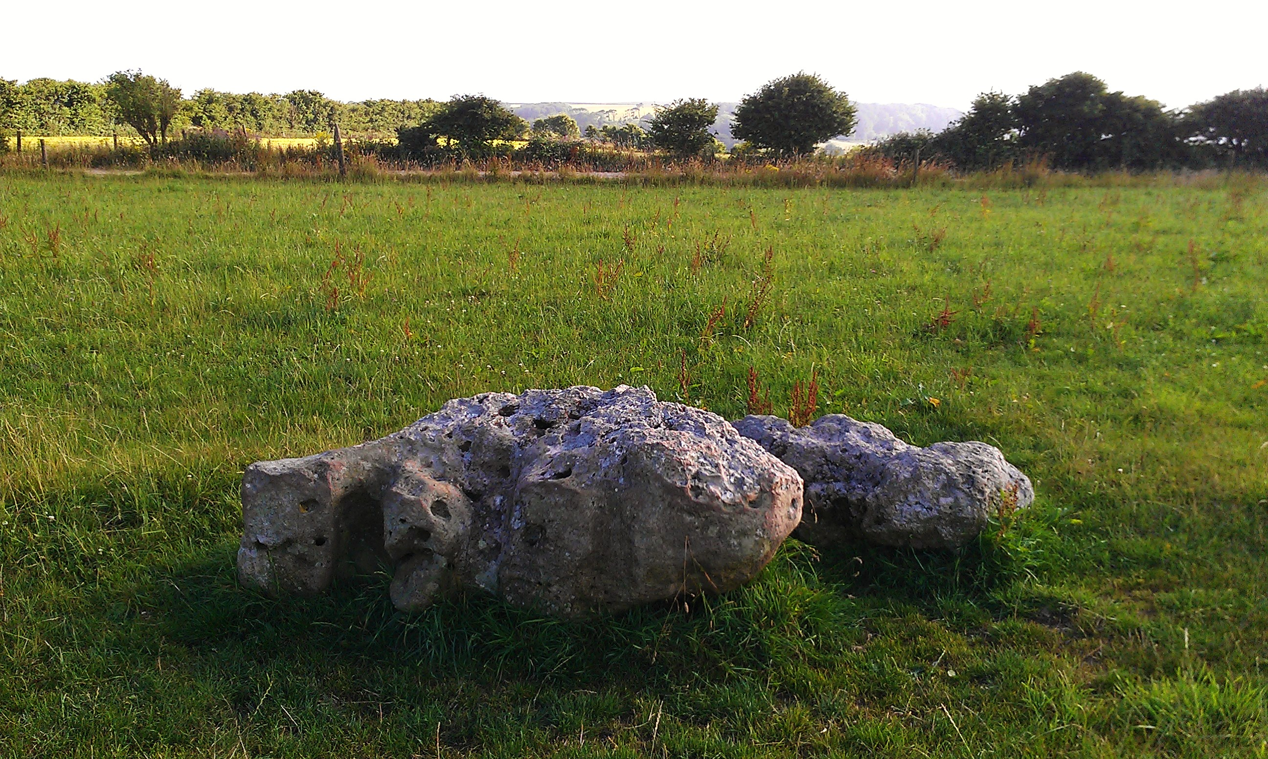 Stones in the Kingston Russell stone circle, with the Dorset Ridgeway in the background.